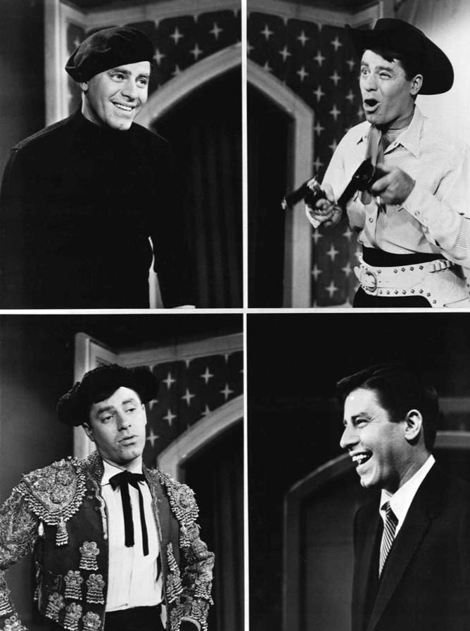 Composite photo of Jerry Lewis-four poses.